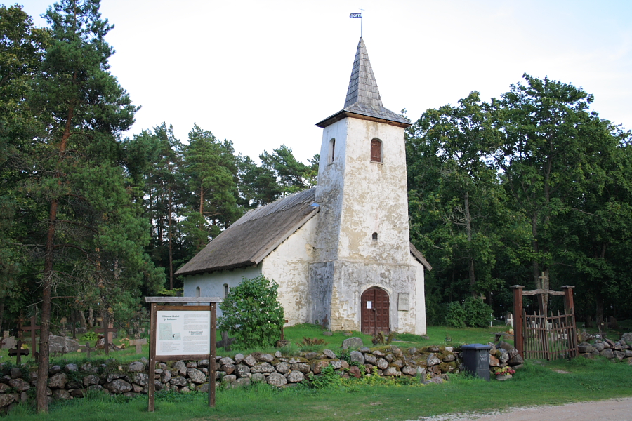 Chapel of Kassari. Hiiumaa island, Estonia.